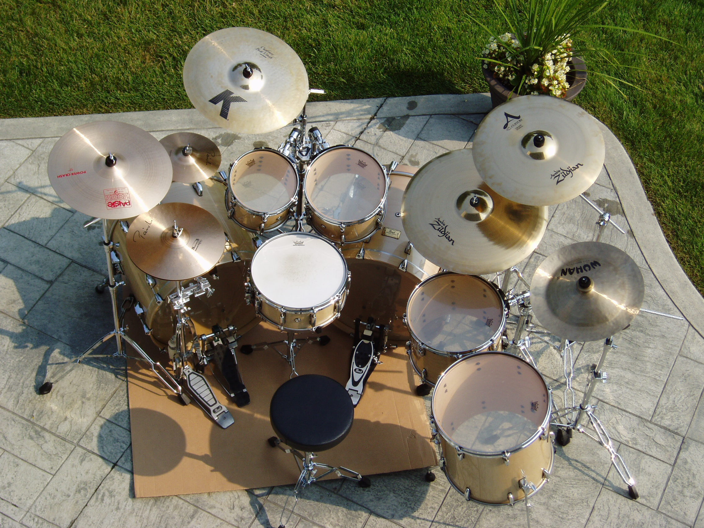 A professional level drumset (Pearl Masters Studio BRX) and cymbals.